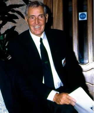 Willi Illbruck Admirals Cup 93 in Plymouth